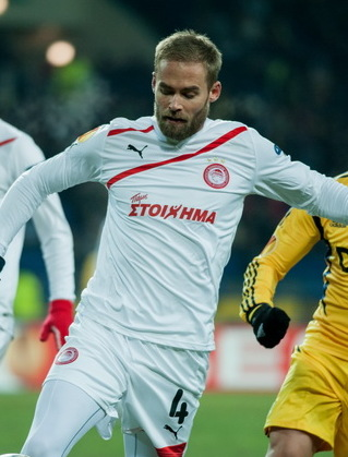 Swedish football player during match Metalist Kharkiv vs Olympiacos Pireus